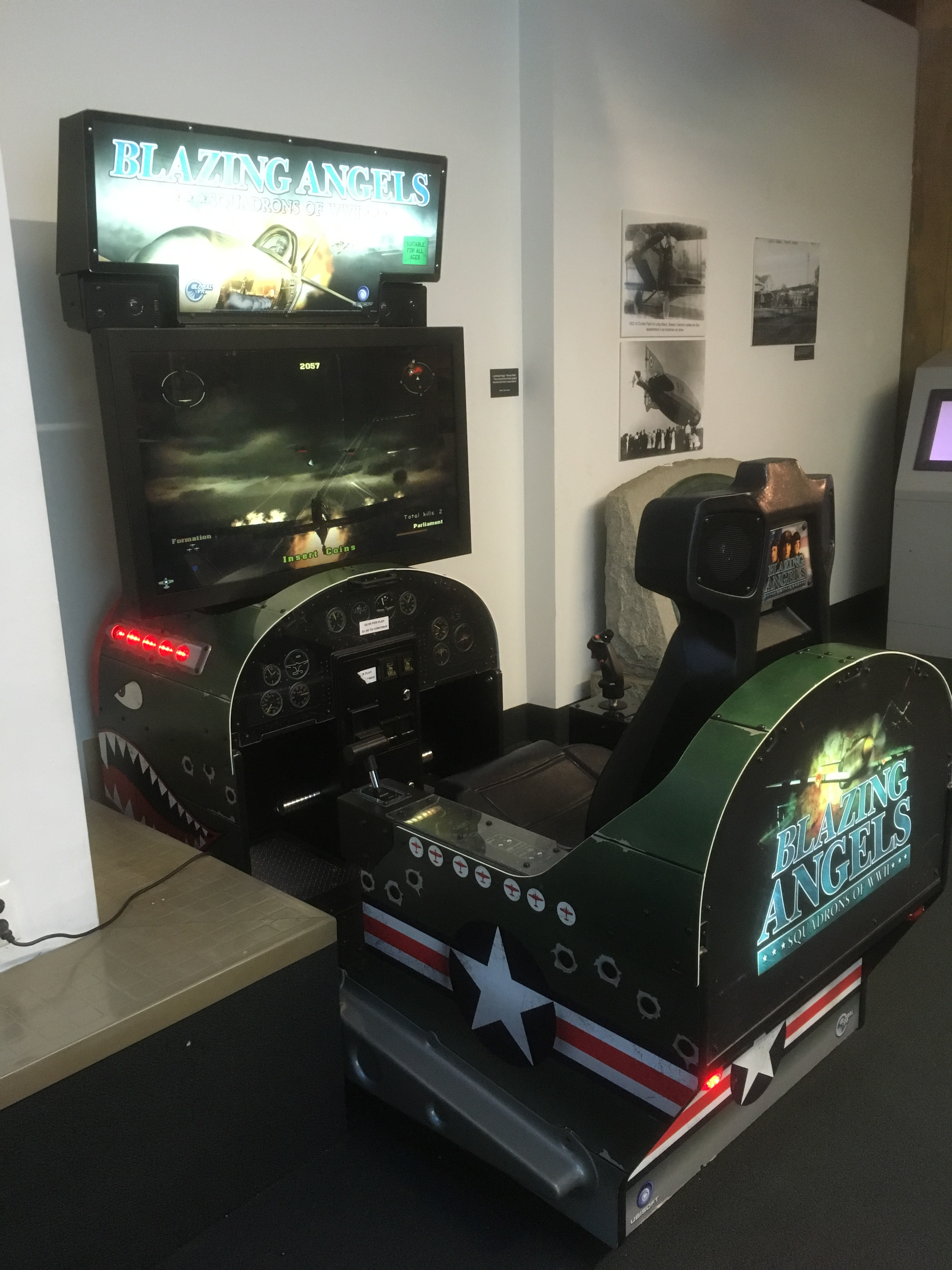 Arcade cabinet of the video game Blazing Angels.